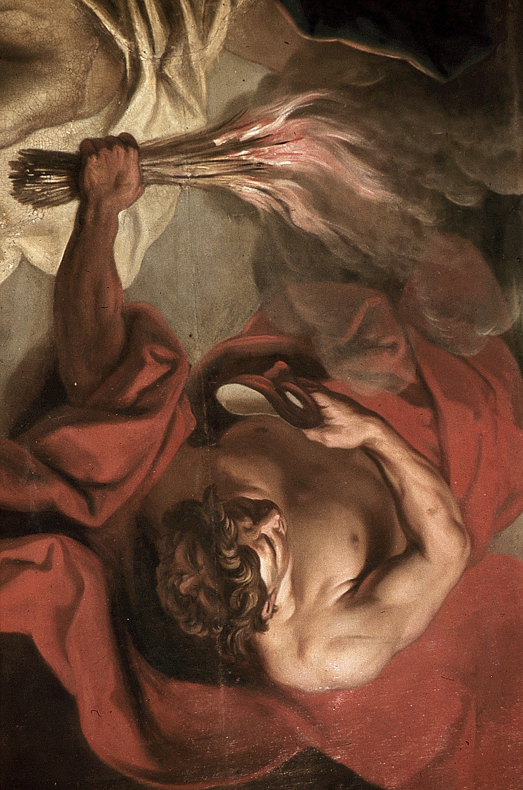 t